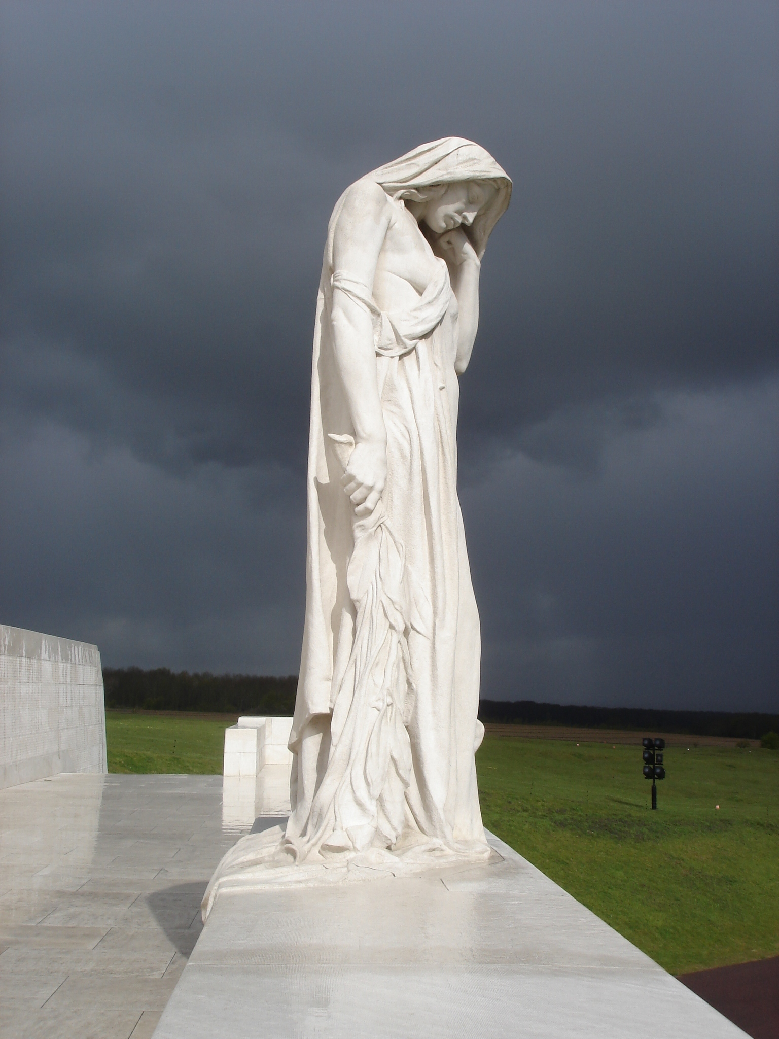 Vimy Memorial - Mother Canada mourning her dead